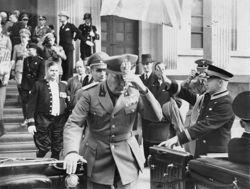 Munich "Peace conference" reaches Agreement. The conference at Munich between Mr. Chamberlain, M. Daladier, Signor Mussolini and Hitler that meant peace or war for Europe, has reached agreement after conversations lasting only a few hours. It is understood that German troops are to make a 'token' occupation of Sudeten territory to be followed by a plebiscite. These pictures were made by a staff photographer. Photo shows: Mussoline with his hand to his cap as he leaves the House of the Fuhrer, in Munich, after the conference. Behind him is Herr Hess, Hitler´s deputy. And September 29th 1938 Planet- Scherl 12894-38